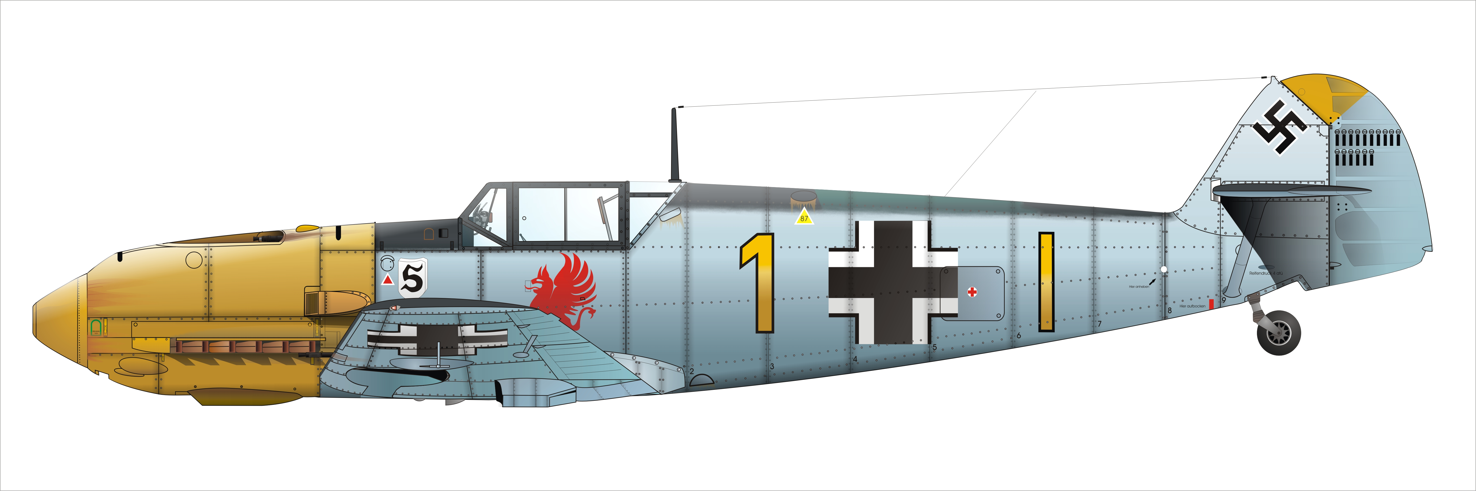 Bf 109 E-3